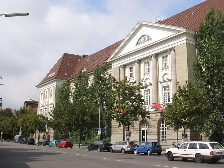 Heinrich-von-Kleist-Park in Berlin-Schöneberg. Mediahouse of the Berlin University of the Arts.